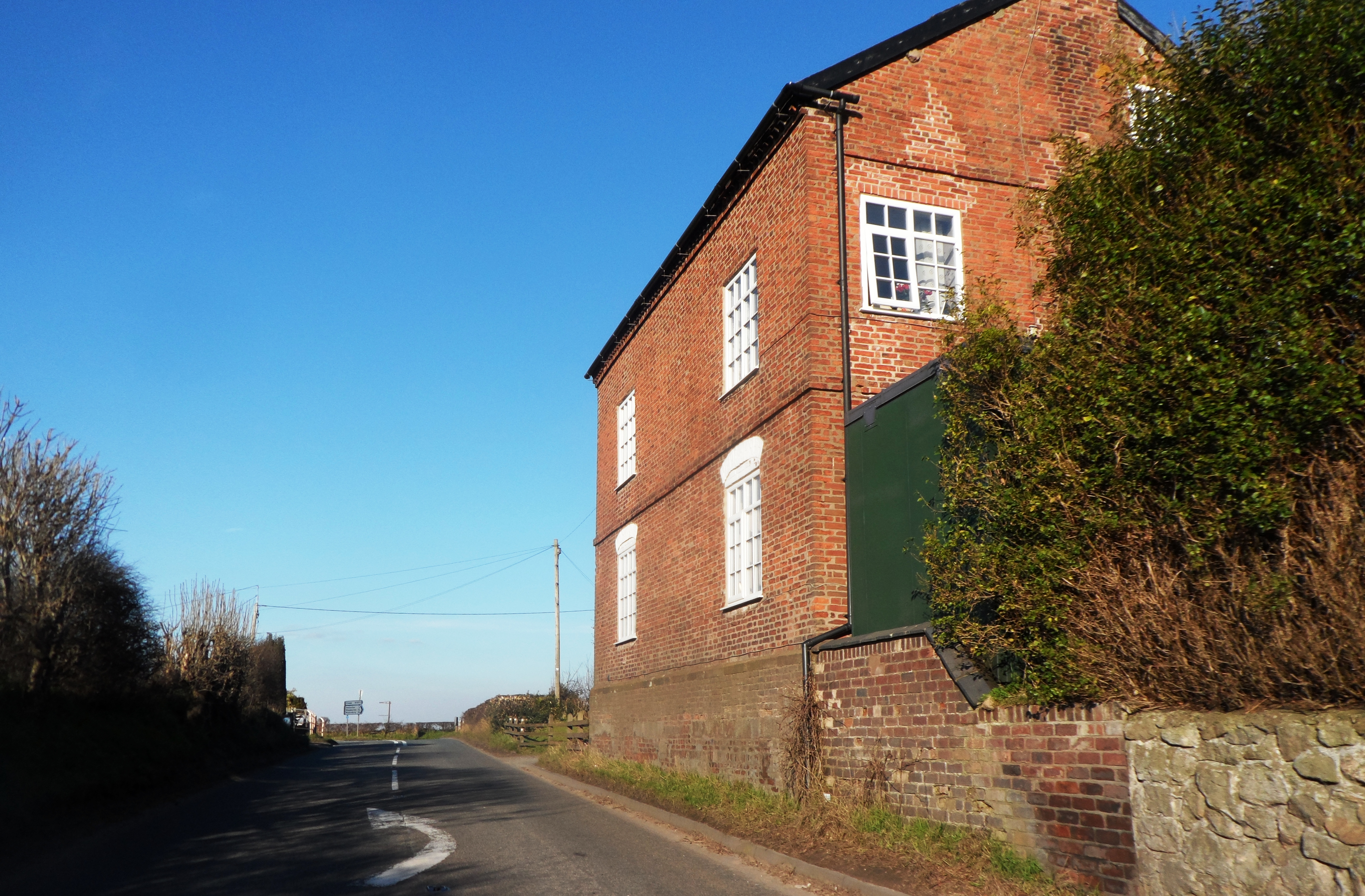 Bank House, Hatherton, Cheshire, near Oakes Corner